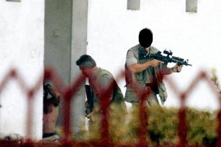 Bodyguards from SEAL Team Six pictured during the 2002 assassination attempt on Afghan President Hamid Karzai. Note the CQBR (short M4) carried by the right-hand operator.